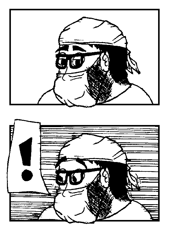 Movement based on the use of long lines in manga style drawing